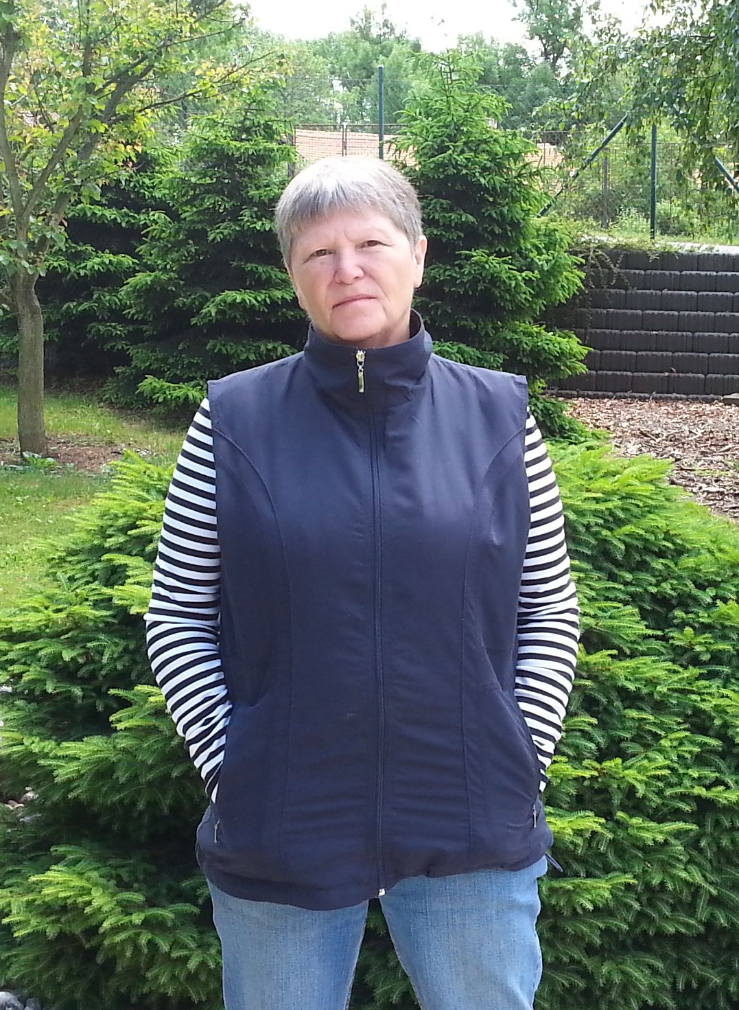 Patricie Holečková